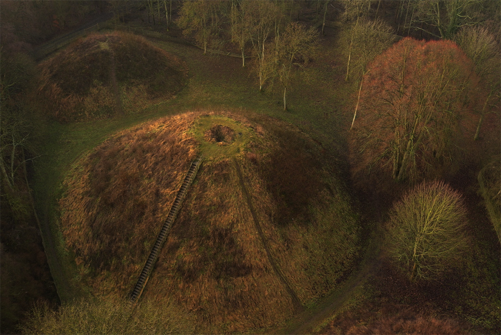 A picture of Bartlow Hills, taken by Bill Blake, . Further pictures of Bartlow Hills are available here.